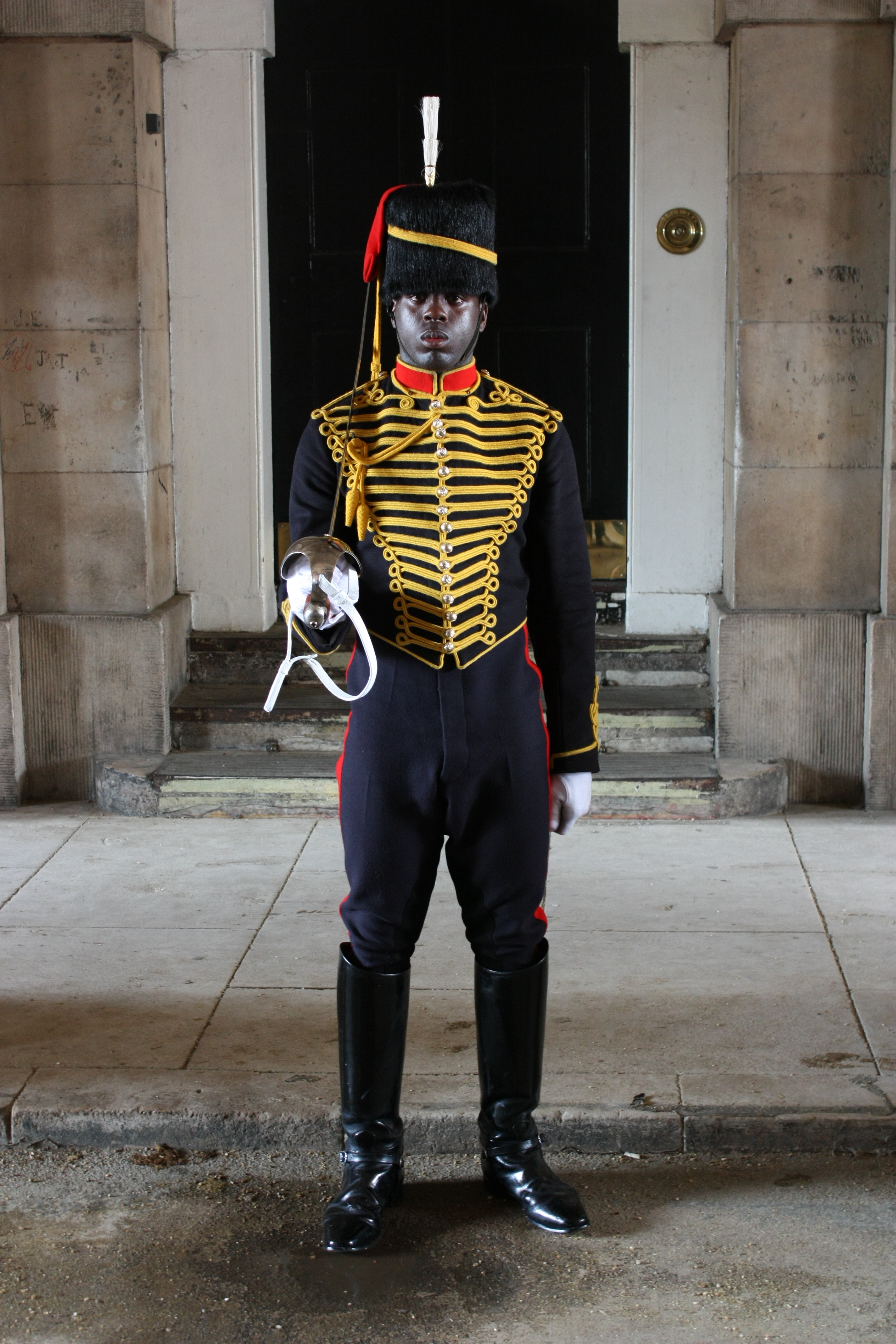 A guard of the Royal Horse Artillery at Horse Guards Parade building in London.